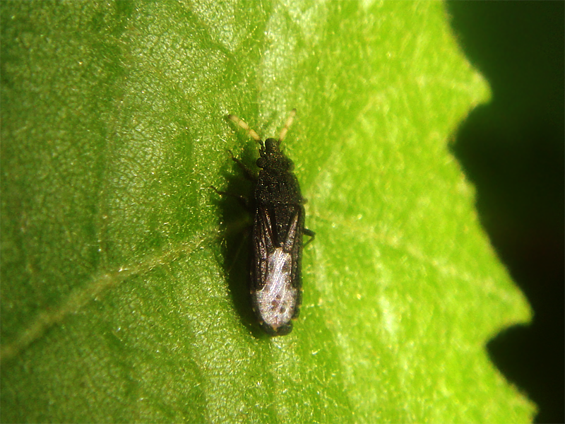 Aradus flavicornis in Ansião, Leiria, Portugal